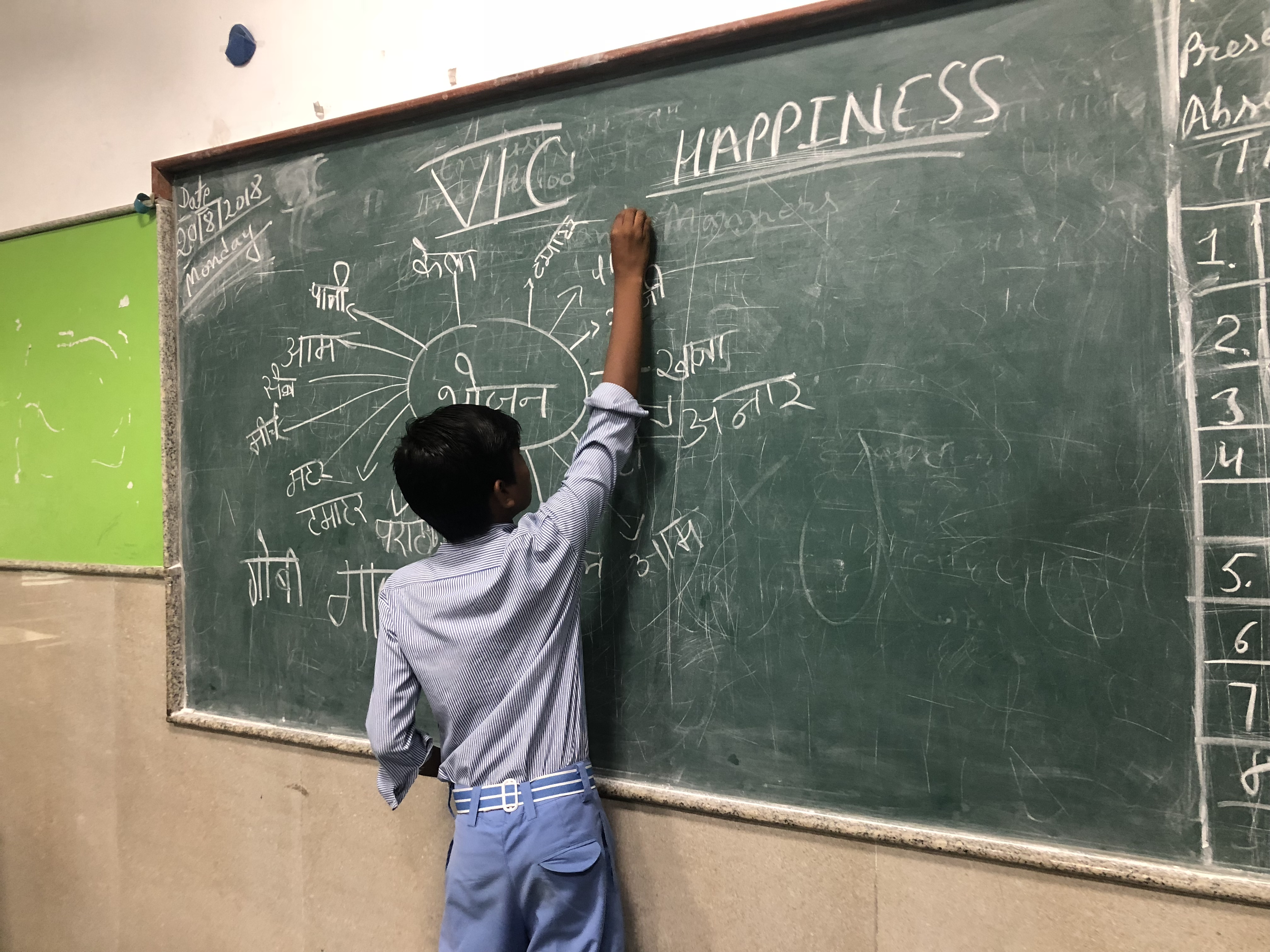 Student from a government school run by the Government of Delhi defining "happiness" in Happiness Class, part of the Happiness Curriculum.